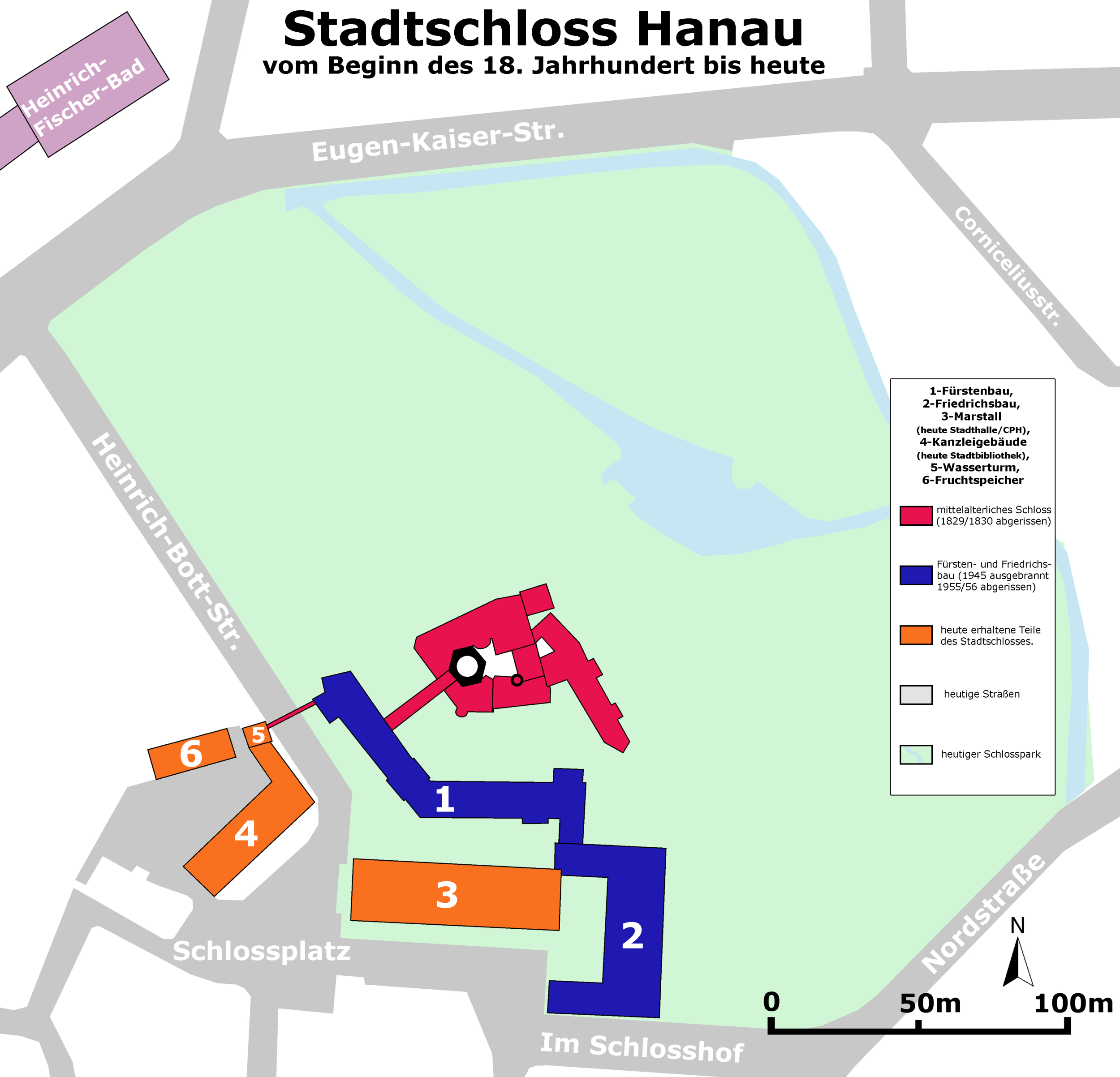 Plan of the castle Hanau.